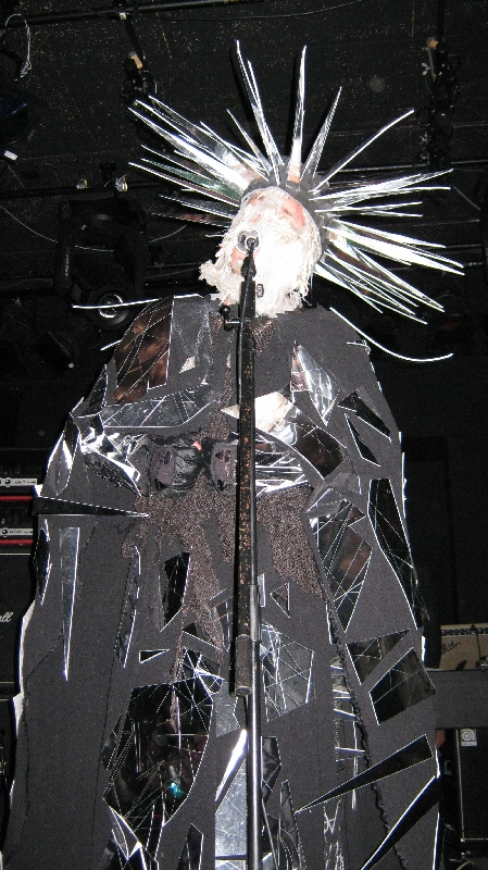 Attila Csihar live with Sunn O))) at Lossana.